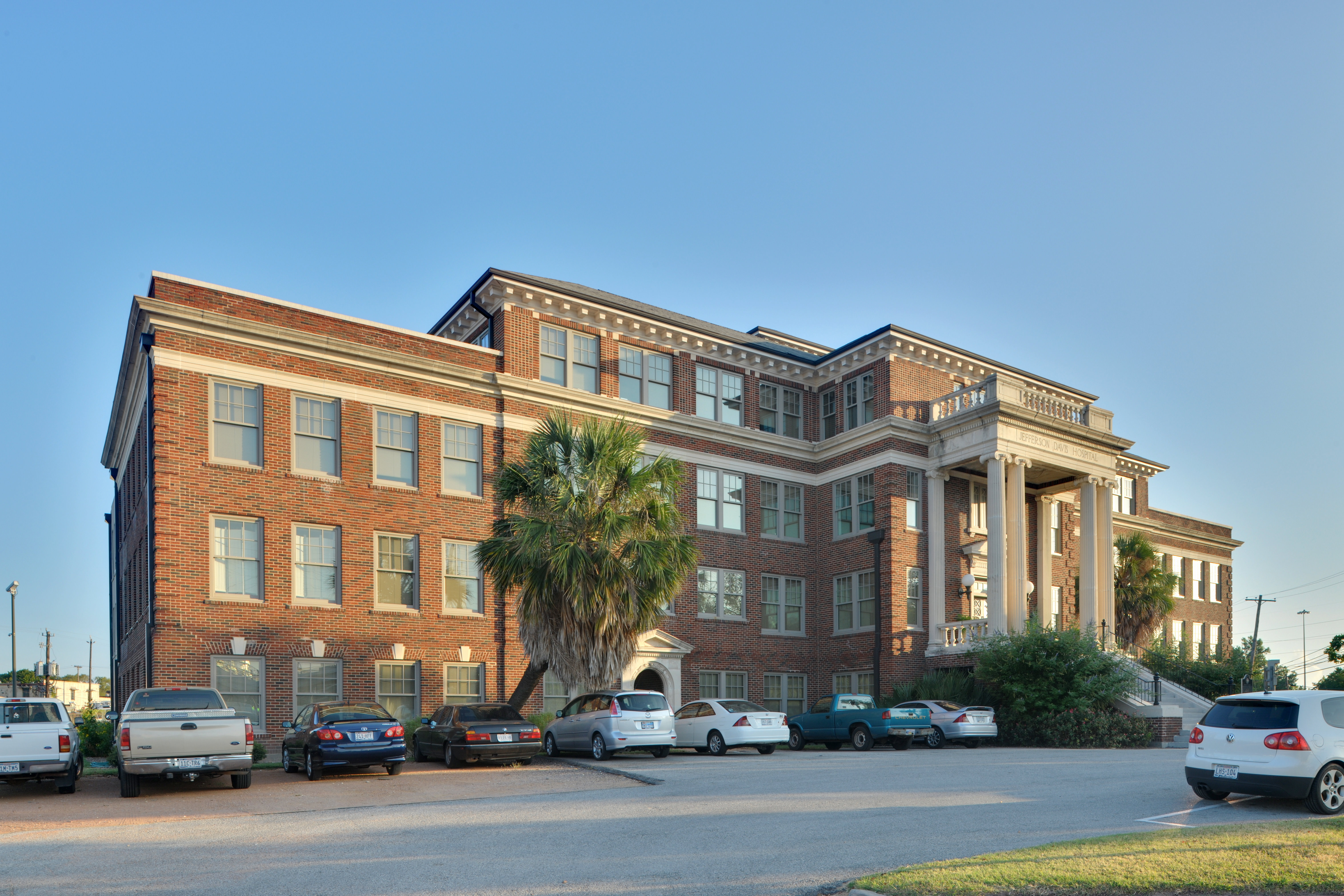 The "Old" (1923) Jefferson Davis Hospital, 1101 Elder Street, Houston (Texas, USA), photographed on 29 August 2010, shortly after sunrise. The property is listed in the National Register of Historic Places. From 2005, it has served as an apartment building, the Elder Street Artist Lofts.